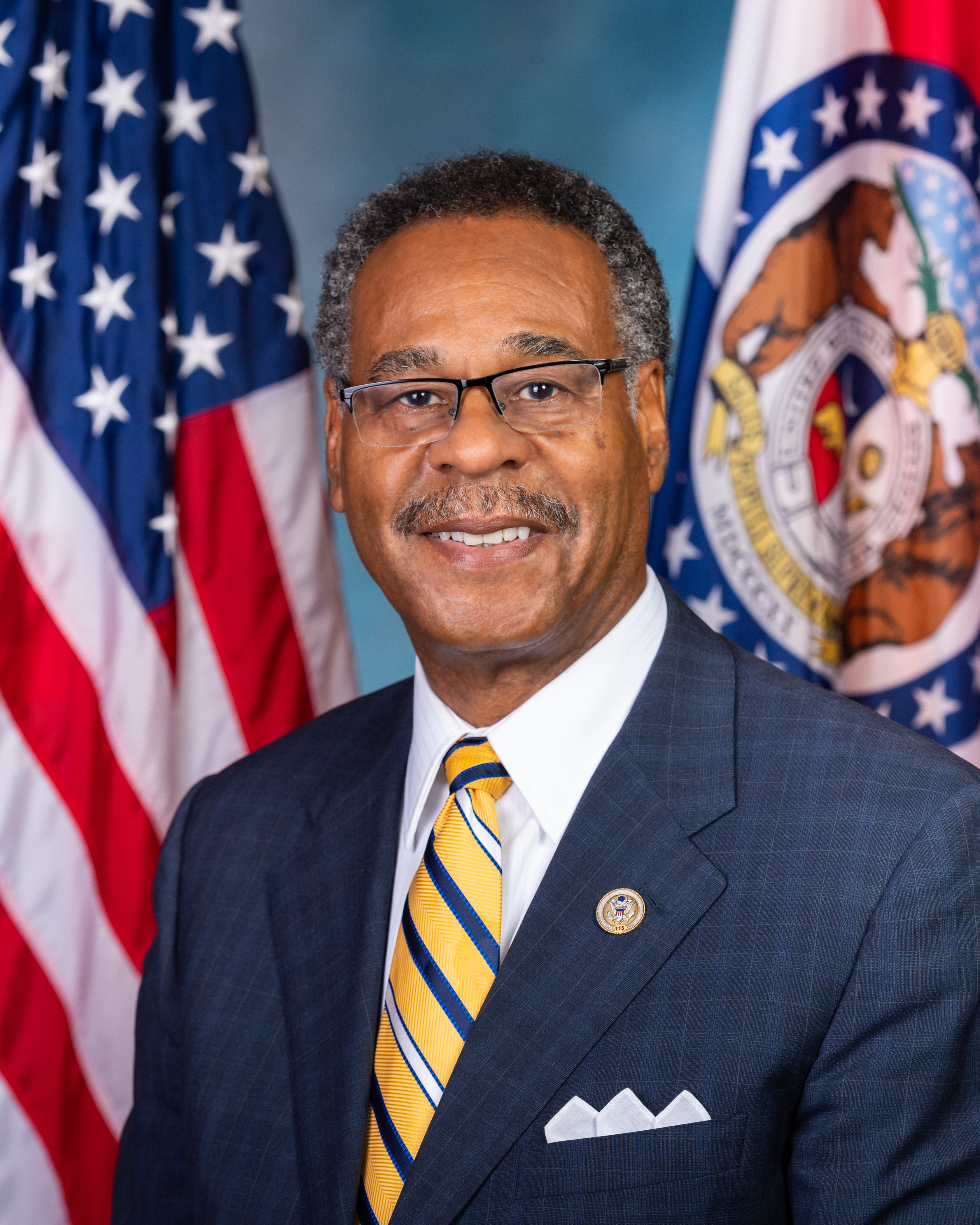 Emanuel Cleaver official photo